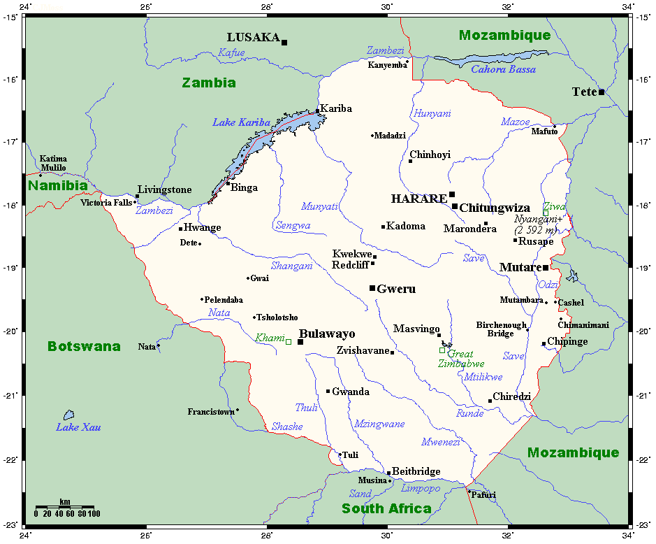 A map showing Zimbabwe's cities, main towns, selected villages, rivers, selected archaeological sites and its highest peak. This map's source is here, with the uploader's modifications, and the GMT homepage says that the tools are released under the GNU General Public License.